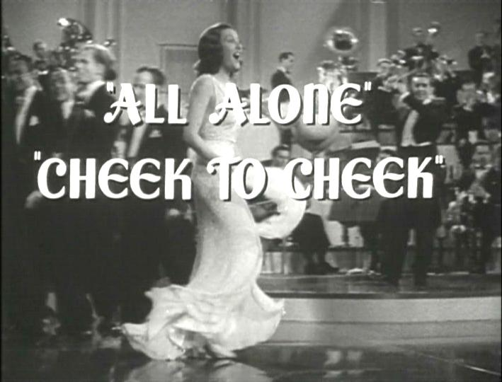 Screenshot of Ethel Merman from the trailer for the film Alexander's Ragtime Band